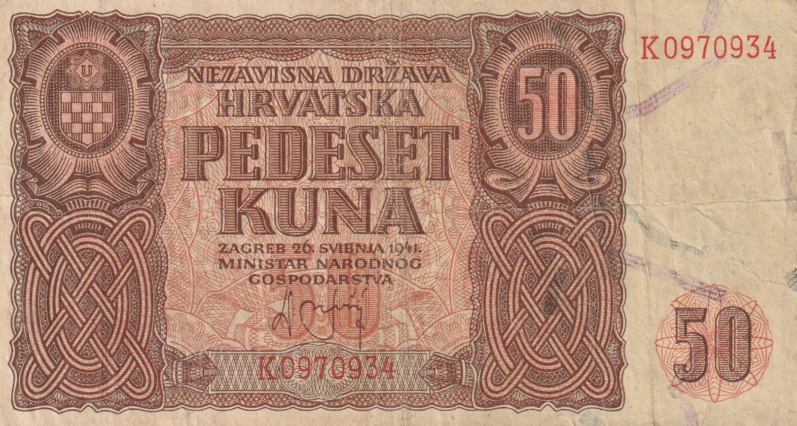 50 kuna 26. svibnja 1941.